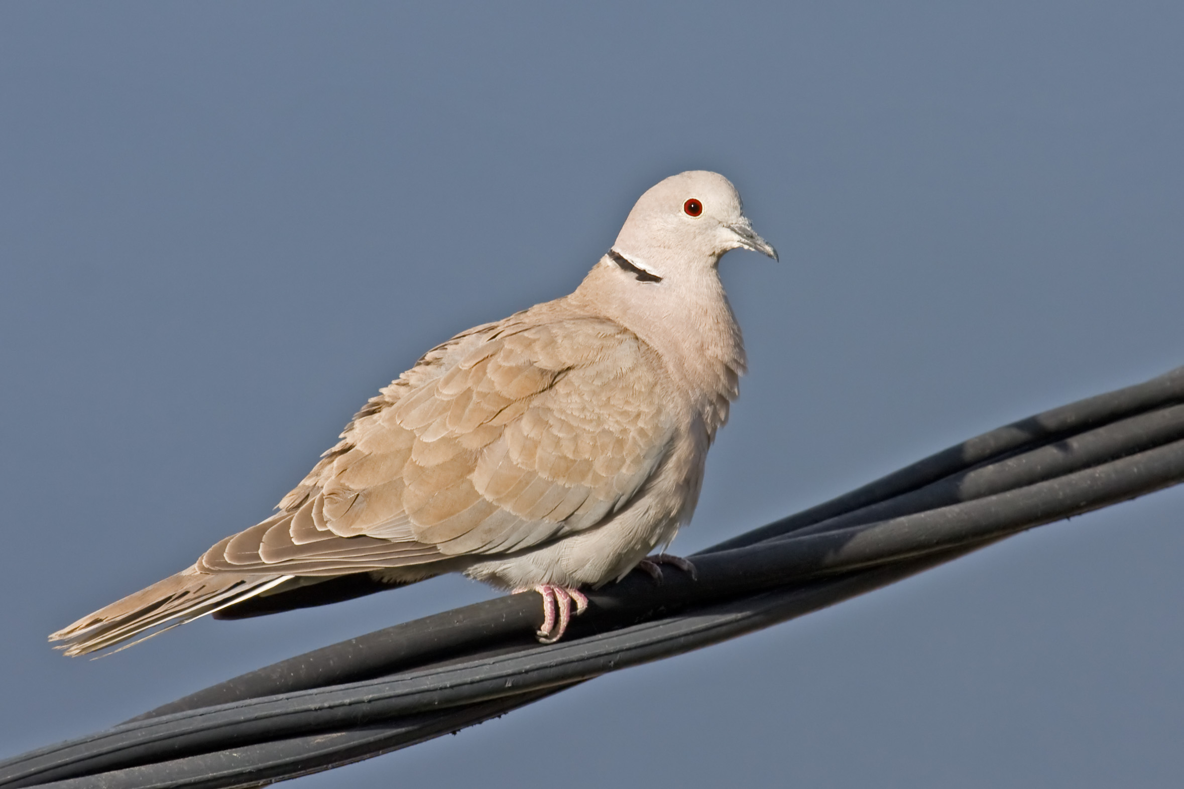 Eurasian Collared Dove